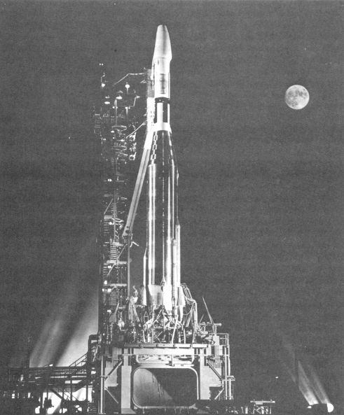 Atlas Agena B with Ranger 2 during countdown under full moon.